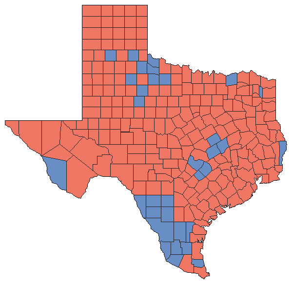 1990 Texas Senate election by county